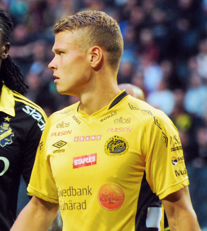 Viktor Claesson